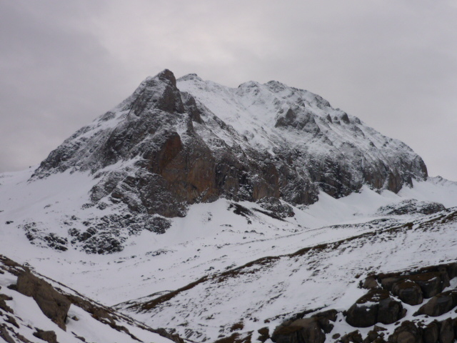 Gamsberg (Eastern Switzerland) seen from north